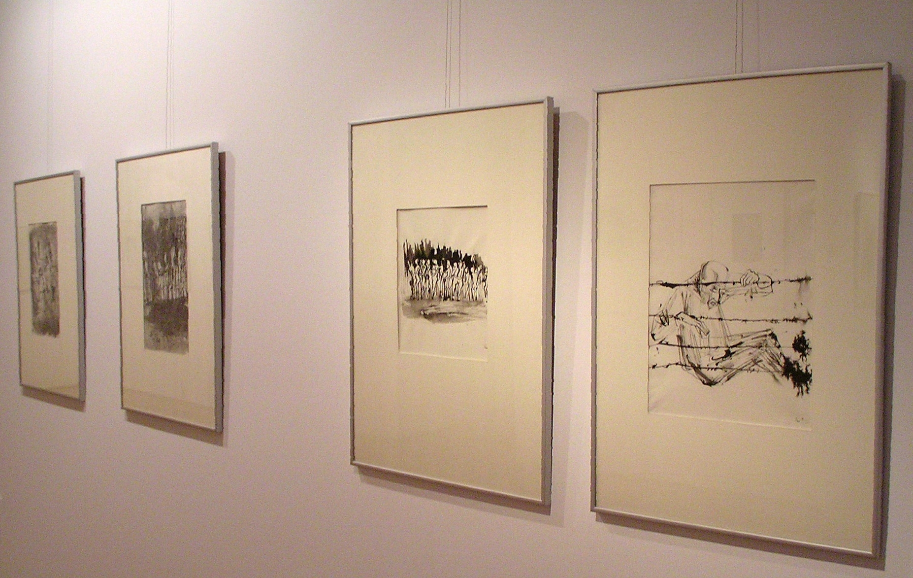 Holocaust cycle drawings by Tisa von der Schulenburg. Part of the exhibition in the Jewish Museum Westphalia, Dorsten, Germany